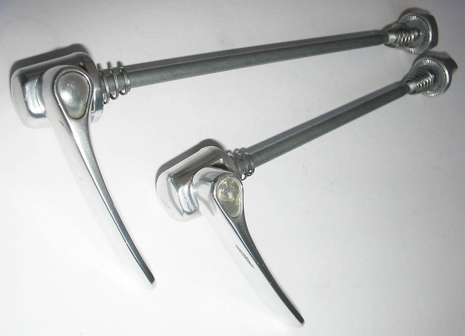 Quick Release bicycle hub levers